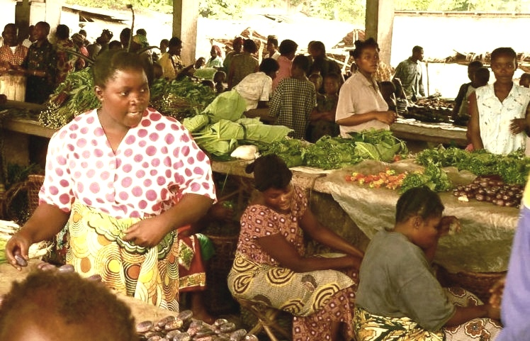 A view of the covered market, Basankusu.